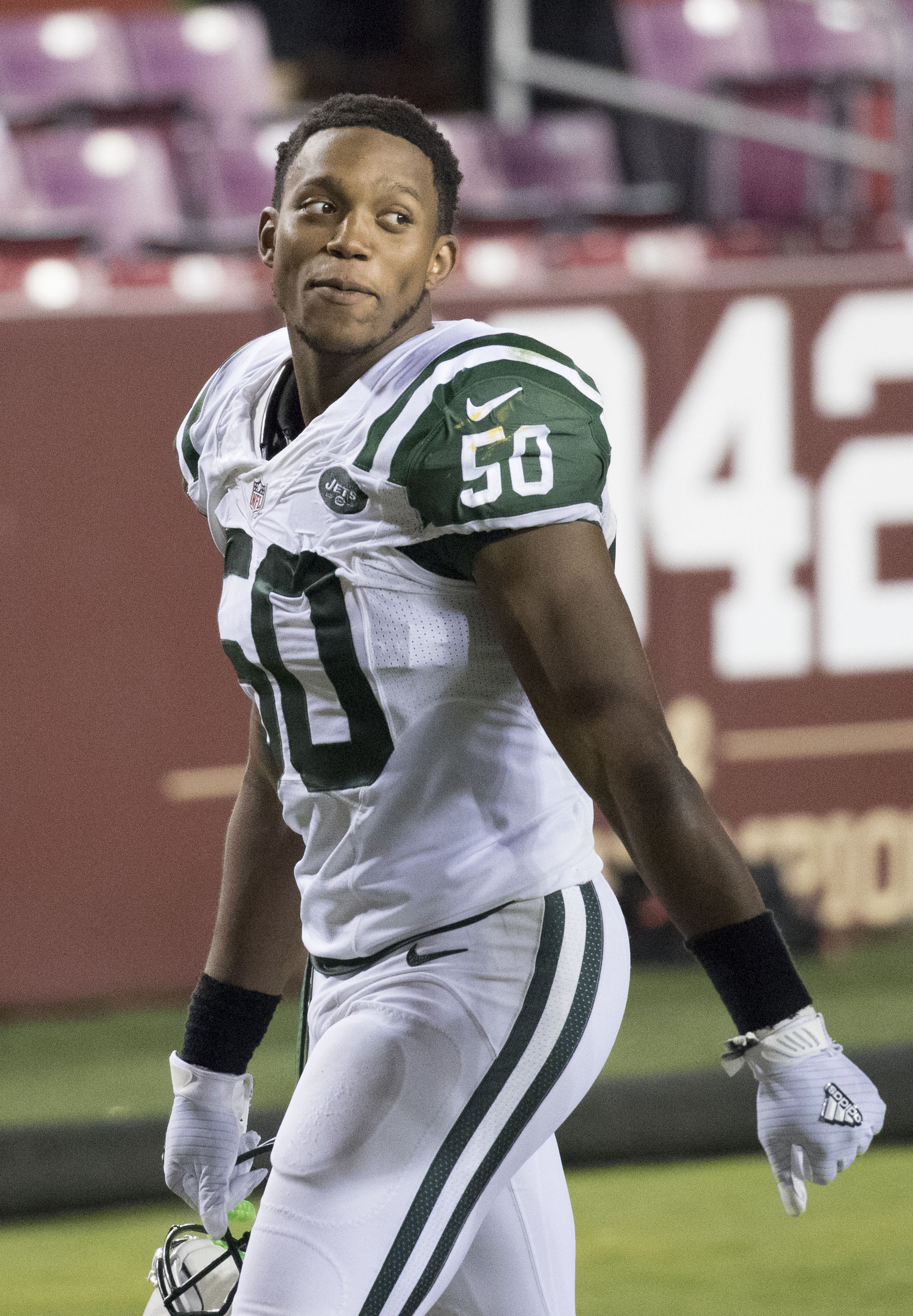 Jets at Redskins 8/19/16